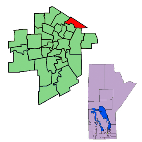 The 1999-2011 boundaries for the River East electoral district highlighted in red